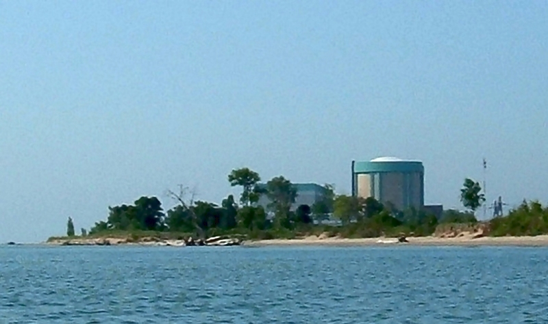 Zion Nuclear Power Plant.